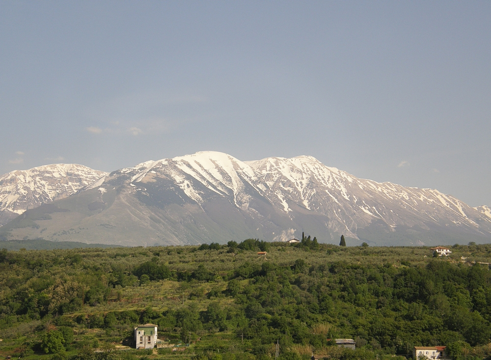 near the Majella, National Park of Abruzzo